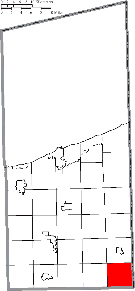 Map of the municipal and township boundaries of Ashtabula County, Ohio, United States, as of the 2000 census, with the location of Williamsfield Township highlighted. Township borders are shown only in unincorporated areas in order to differentiate incorporated and unincorporated areas more clearly.